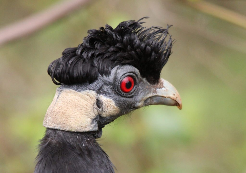 A Crested Guineafowl at Hluhluwe-Umfolozi Game Reserve, South Africa.